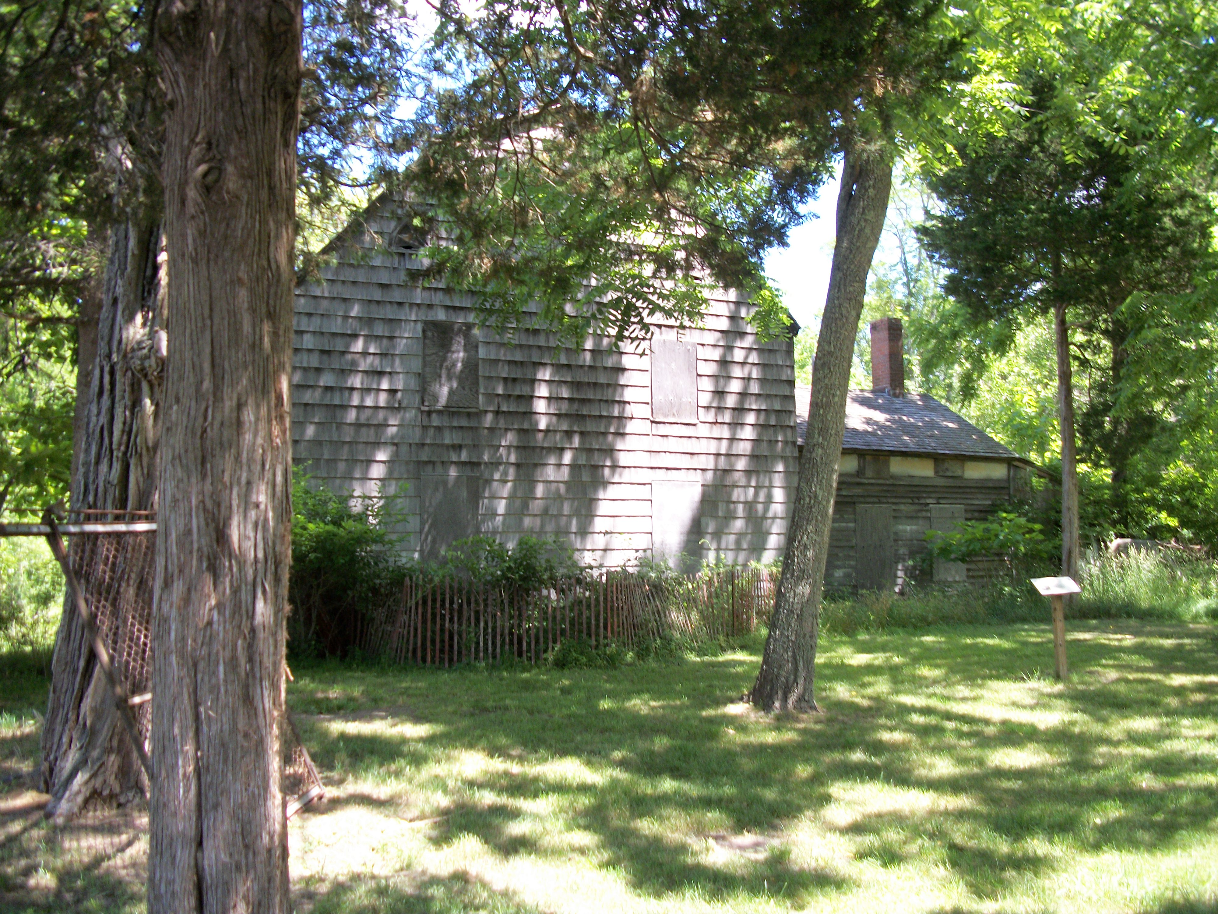 The John Homan House, part of the Homan-Gerard House and Mills in Yaphank, New York. This site is directly across from the Robert Hawkins Homestead on Yaphank Avenue.